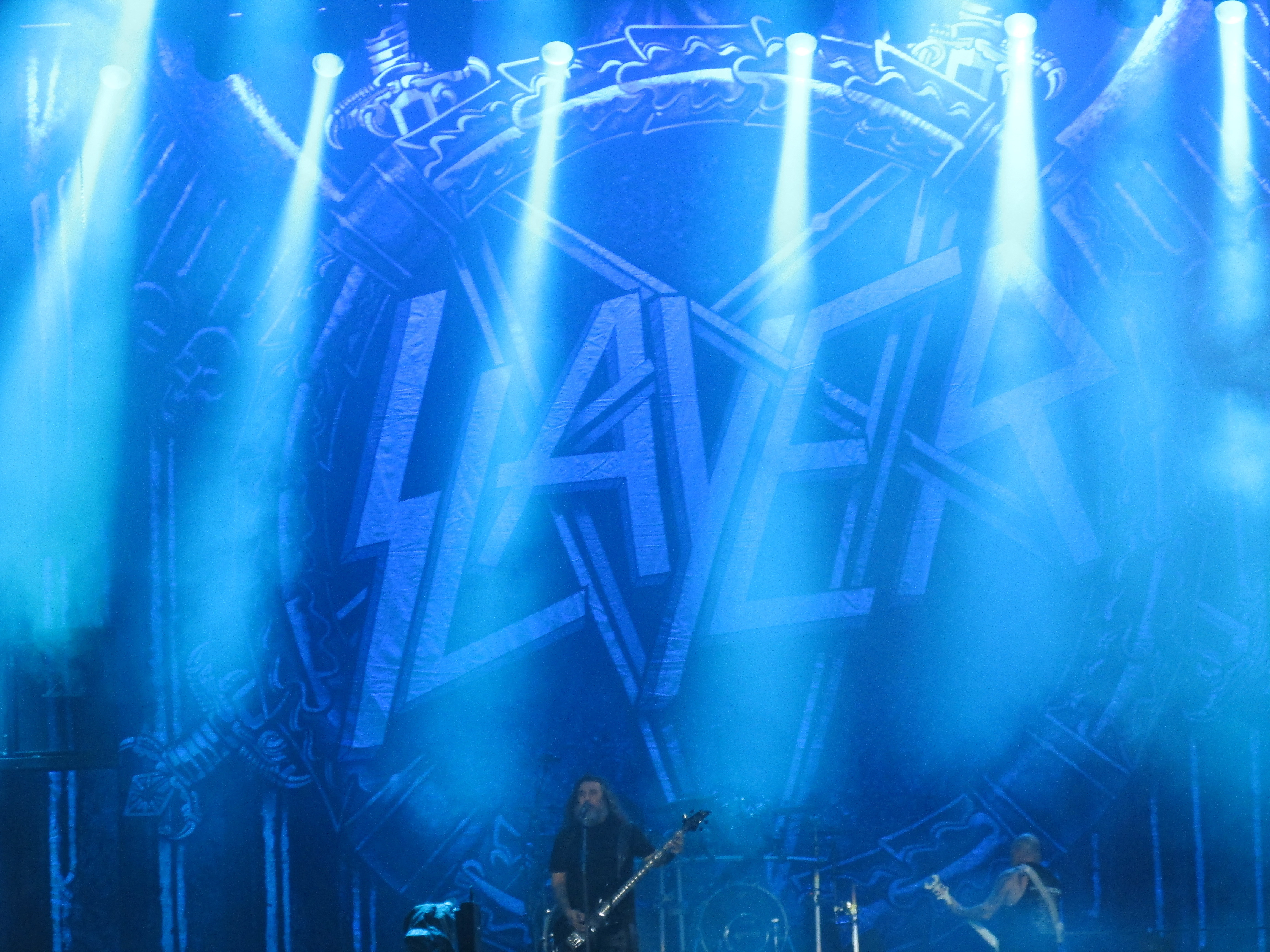 Slayer at Wacken Open Air 2014